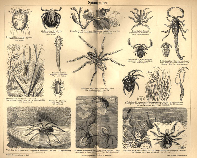 This is page 152 of 1044, in Volume 15 of the German illustrated encyclopedia Meyers Konversationslexikon, 4th edition (1885-1890), fraktur font.